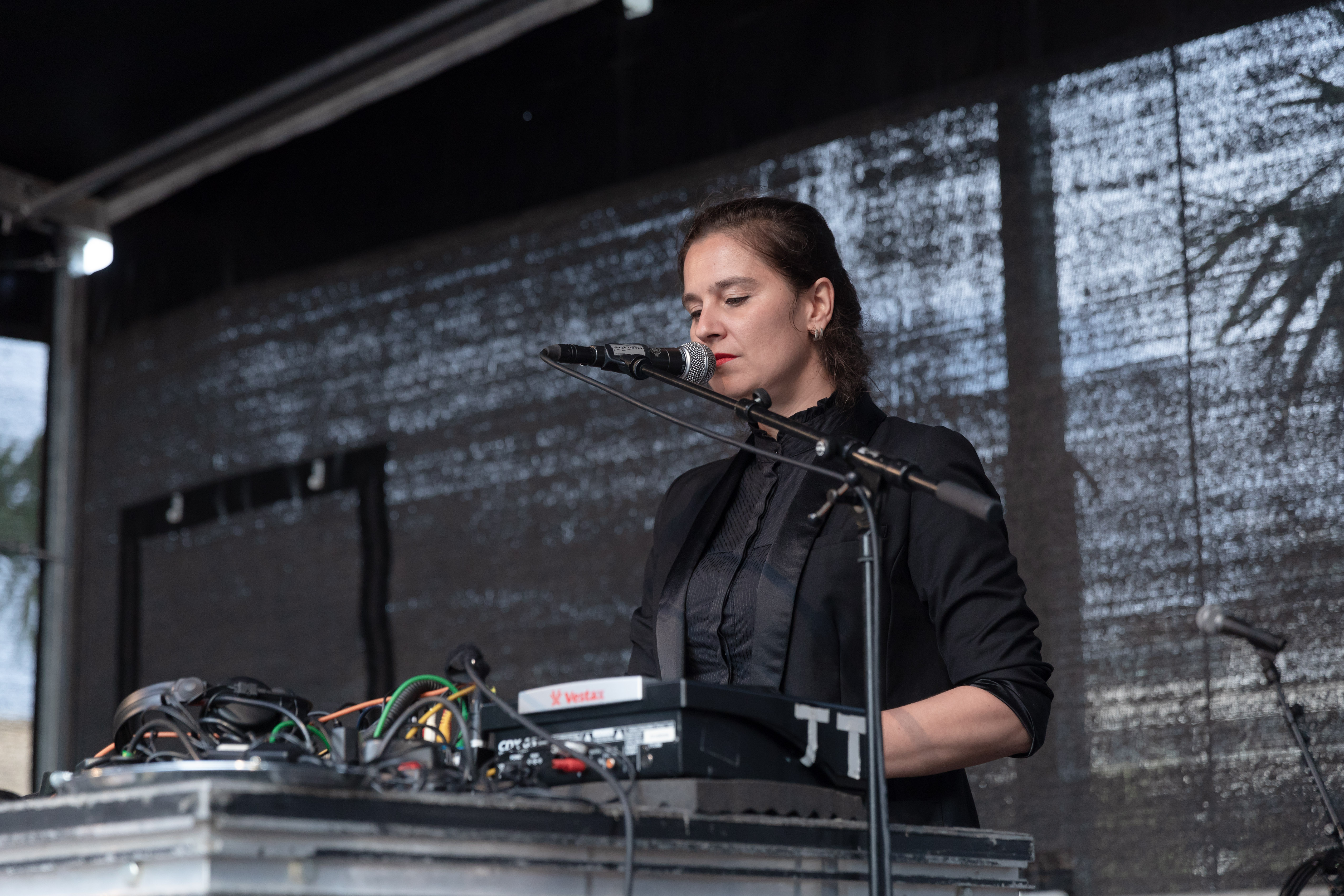 Maja Osojnik, concert at a protest against the governments plans for the ORF (Karlsplatz, Vienna, Austria).